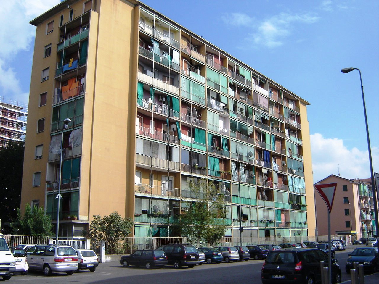 The social housing of Via Pascarella N° 18 - Quarto Oggiaro